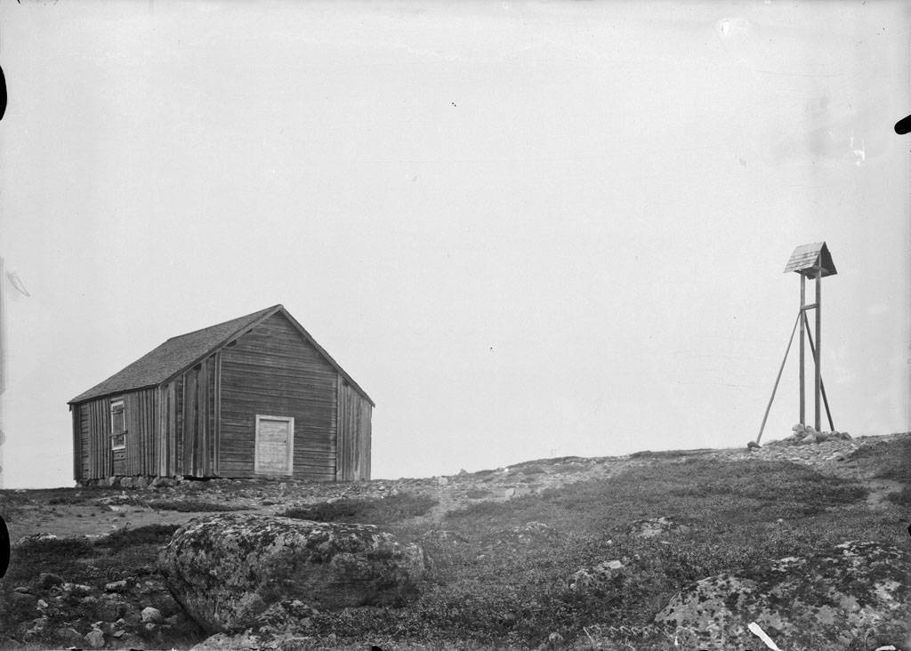 Brändö-Uddskär Chapel, built in 1774 by the fishermen population in Luleå outer archipelago. Photograph by Bernhard Salin, Director General of the Swedish National Heritage Board in 1913-1923. Format: Glass plate negative